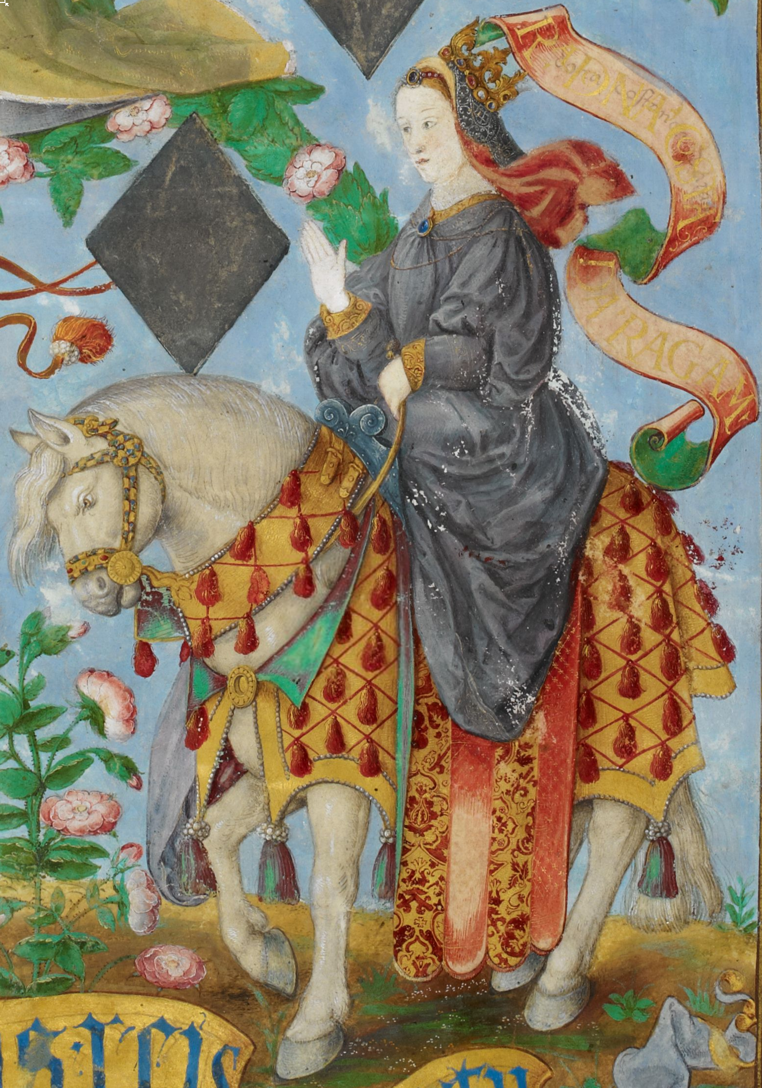 D. Constance of Hohenstaufen (also Constance of Sicily). Queen consort of the Crown of Aragon due to her marriage to King Peter III.